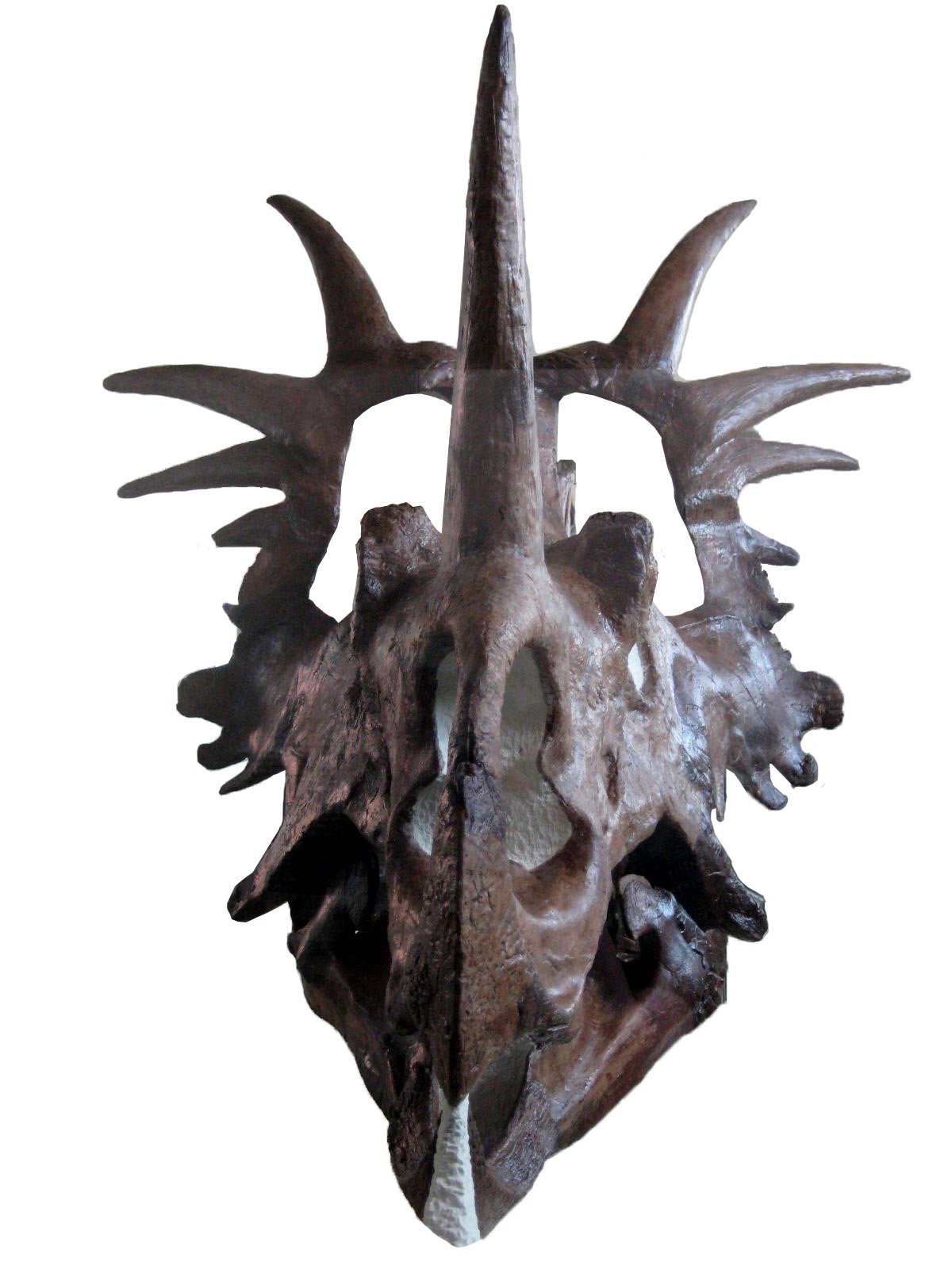 Styracosaurus albertensis, American Museum of Natural History, New York